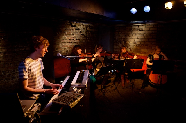 Ólafur Arnalds in Cologne on 16 February 2008